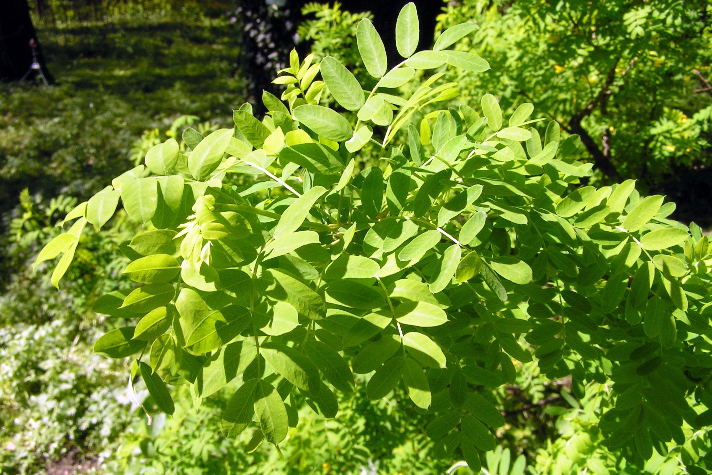 Caragana boisii in the Botanical Garden of the University of Vienna